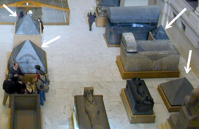 Part of the main hall of the Egyptian Museum, Cairo, showing 4 black granite pyramidions (white arrows) - the world's largest collection